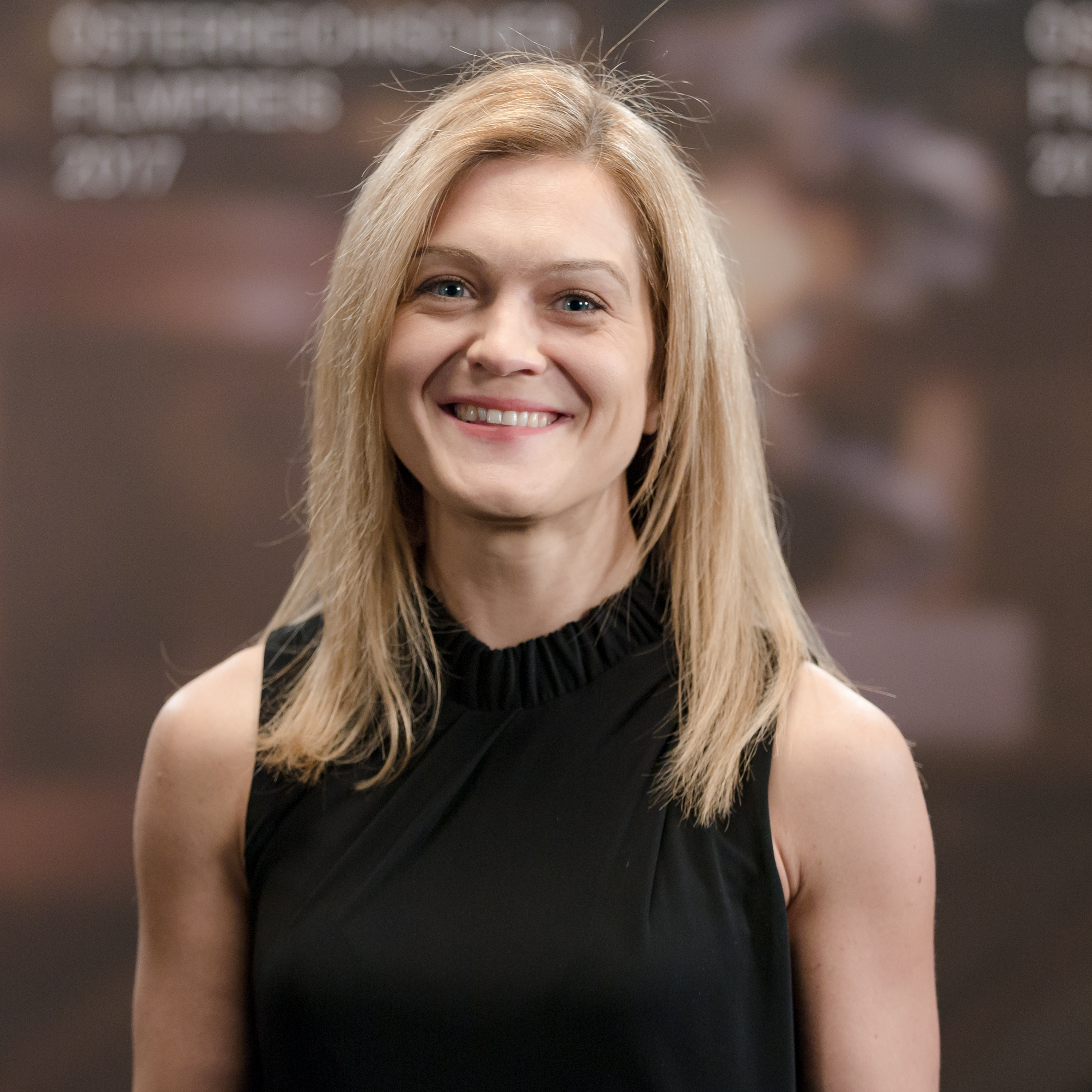 Barbara Eder, writer and director of Thank You for Bombing, at the Austrian Film Awards 2017 (Rathaus, Vienna,Austria).